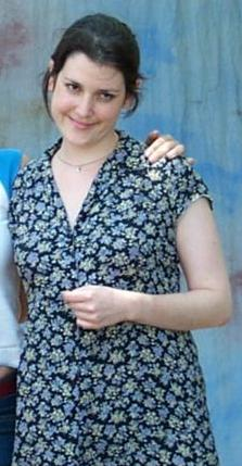 Melanie Lynskey on the Set of Claustrophobia